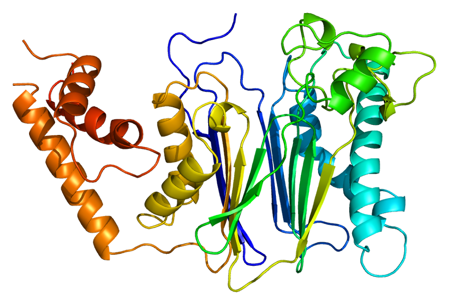 Structure of the PPM1A protein. Based on PyMOL rendering of PDB 1a6q.